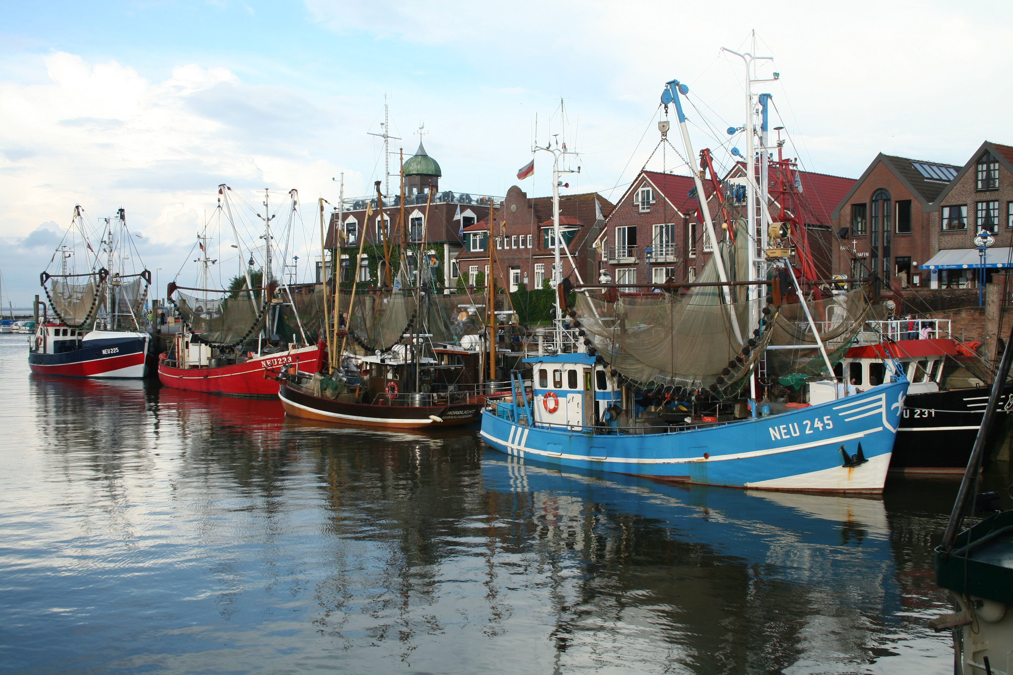 Cutter, Neuharlingersiel, Germany